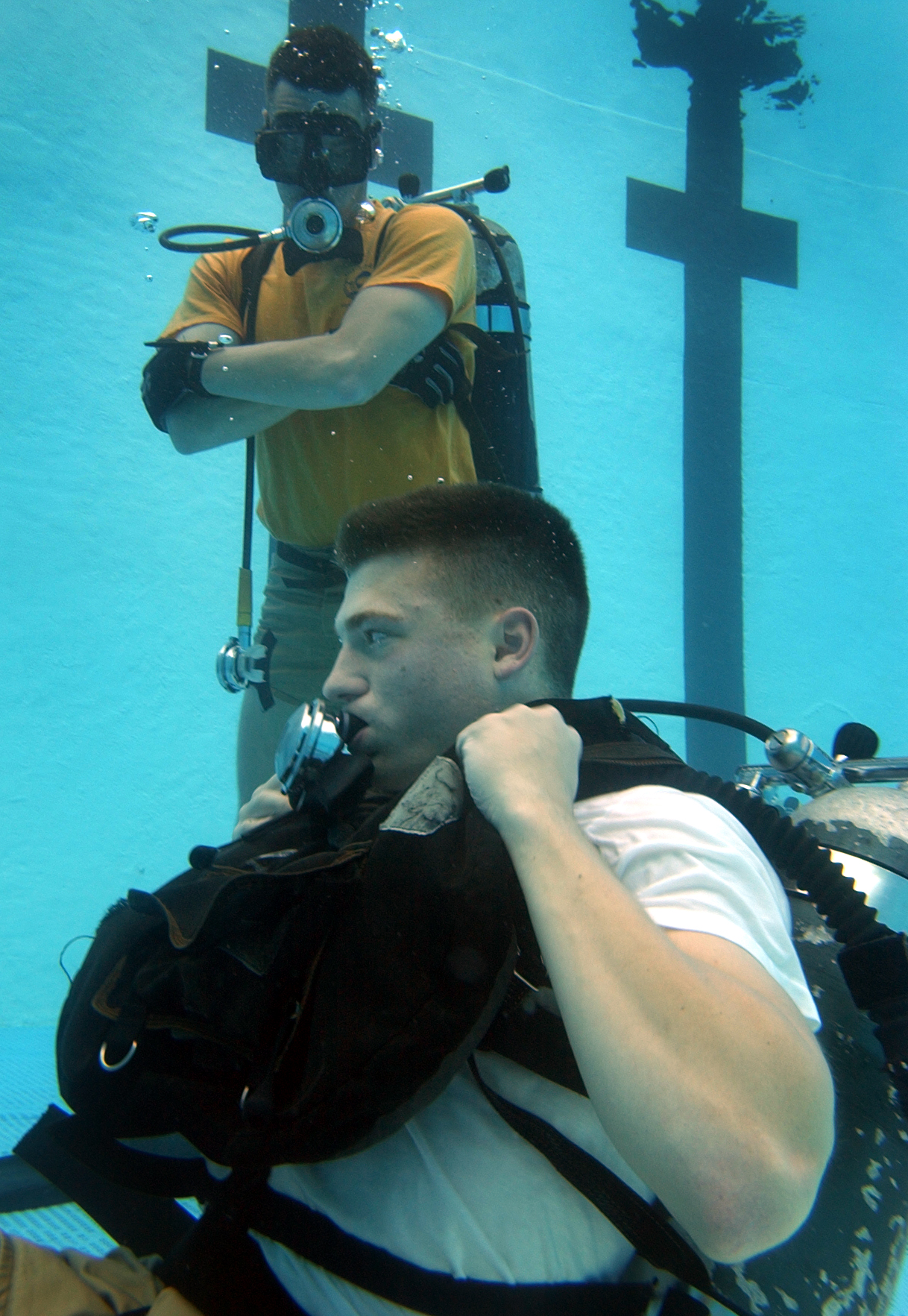 030121-N-6967M-344 Instructor ABHC (EOD) Preston Thomson keeps a close watch as students are evaluated on how they recover in emergency situations, during confidence training. (All Hands, June 2003, pg. 18) Photo by PH1 Shane T. McCoy. (RELEASED)